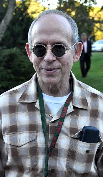 American actor Bob Balaban Actor attends 18th Annual Hamptons International Film Festival Chairman's Reception on October 9, 2010 at the home of Stuart Suna in East Hampton, New York. Photo by Nick Stepowyj.